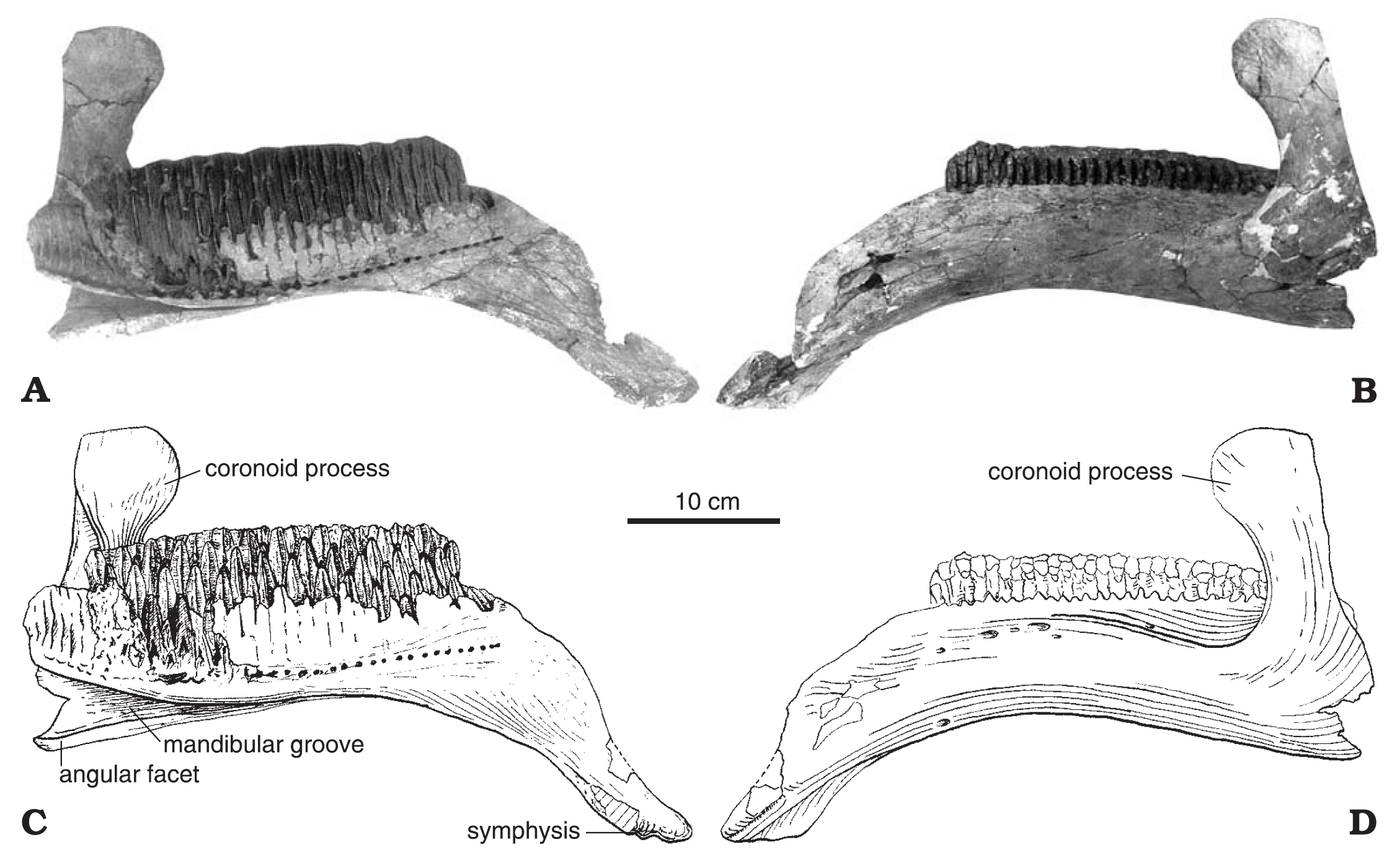 Left dentary of Amurosaurus riabininini (AEHM 1/12) in medial (A) and lateral (B) views.